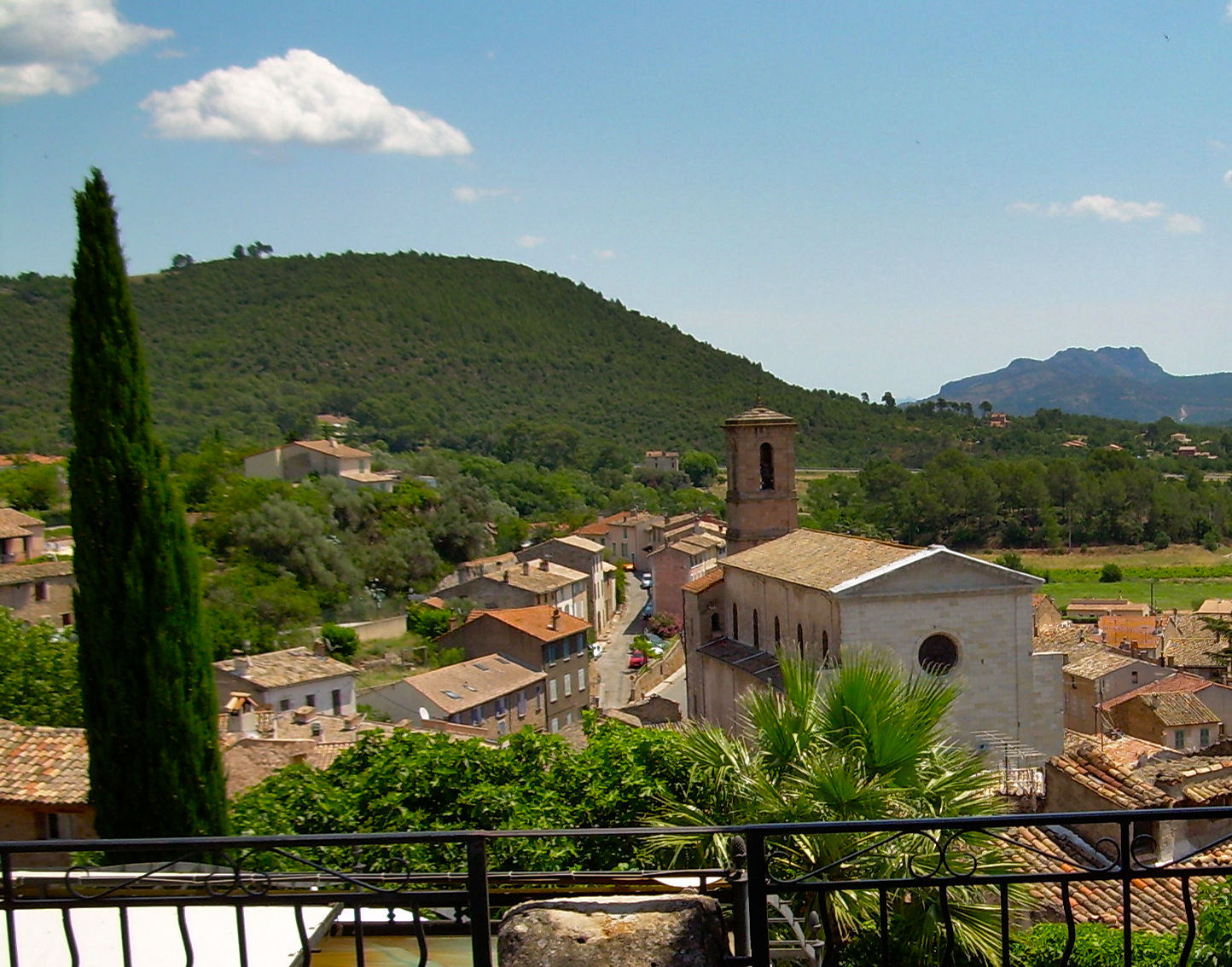 View from the castle, Les Arcs sur Argens, France